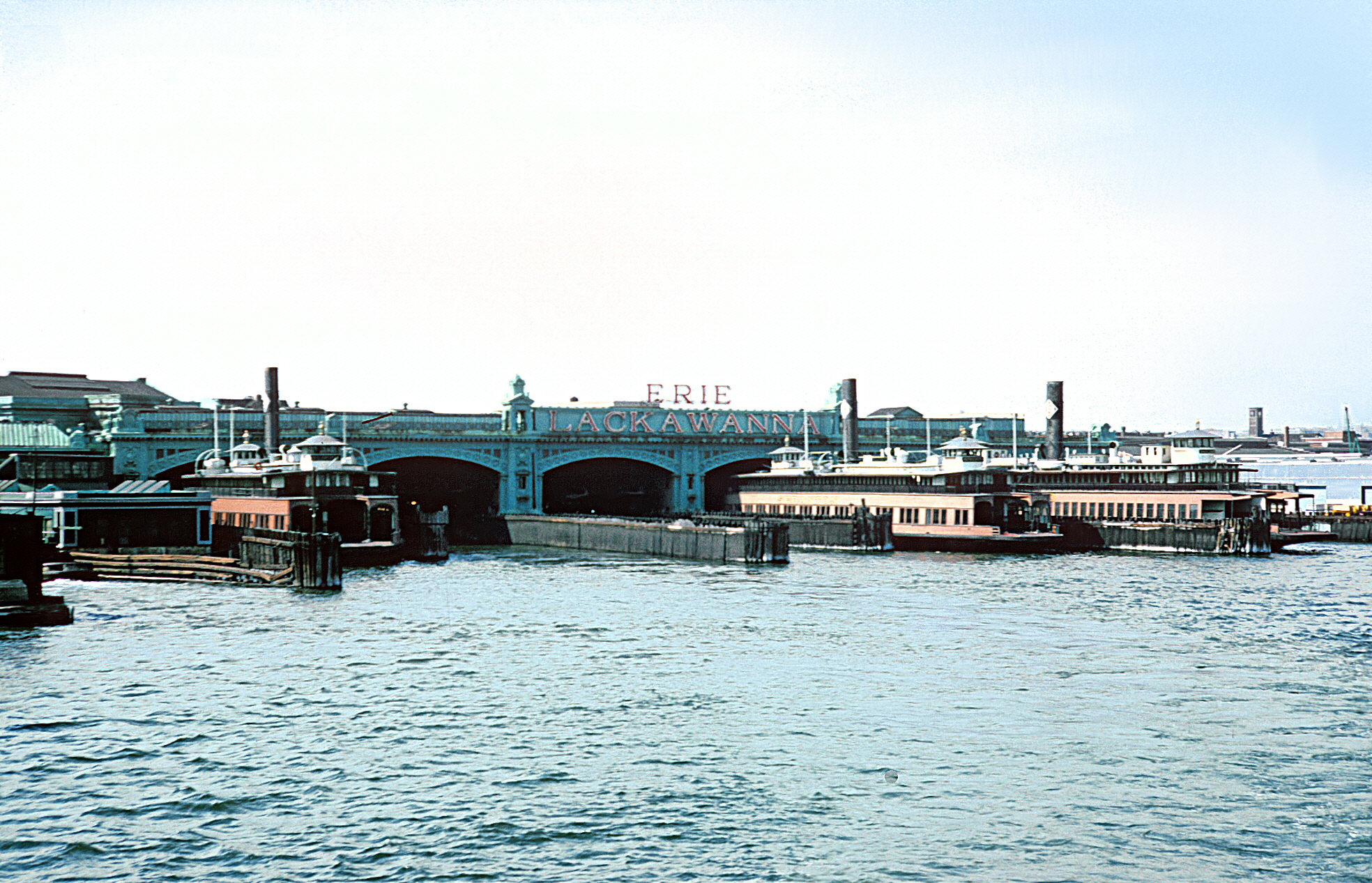 A Roger Puta Photograph